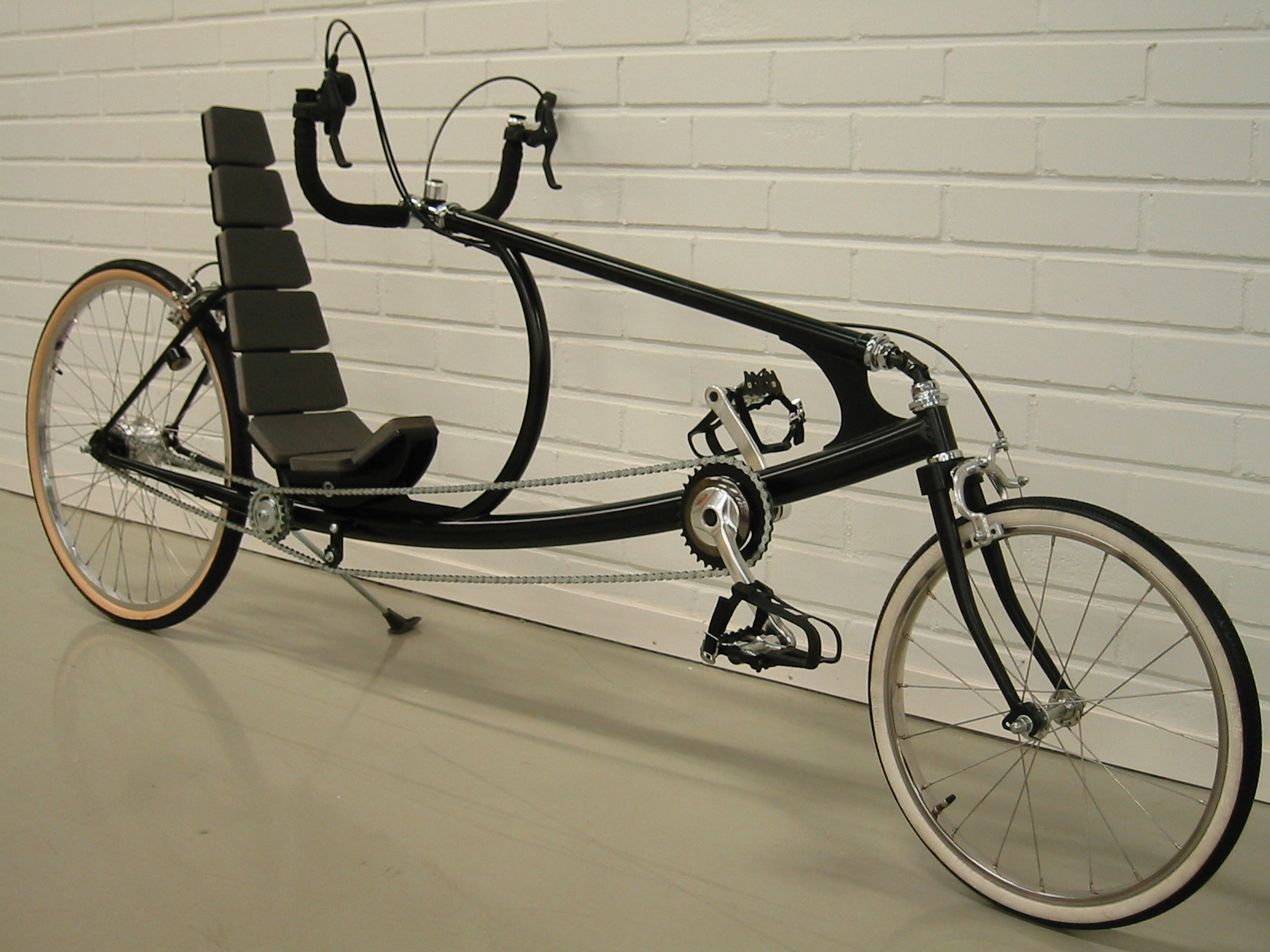 Ground Hugger recumbent bicycle